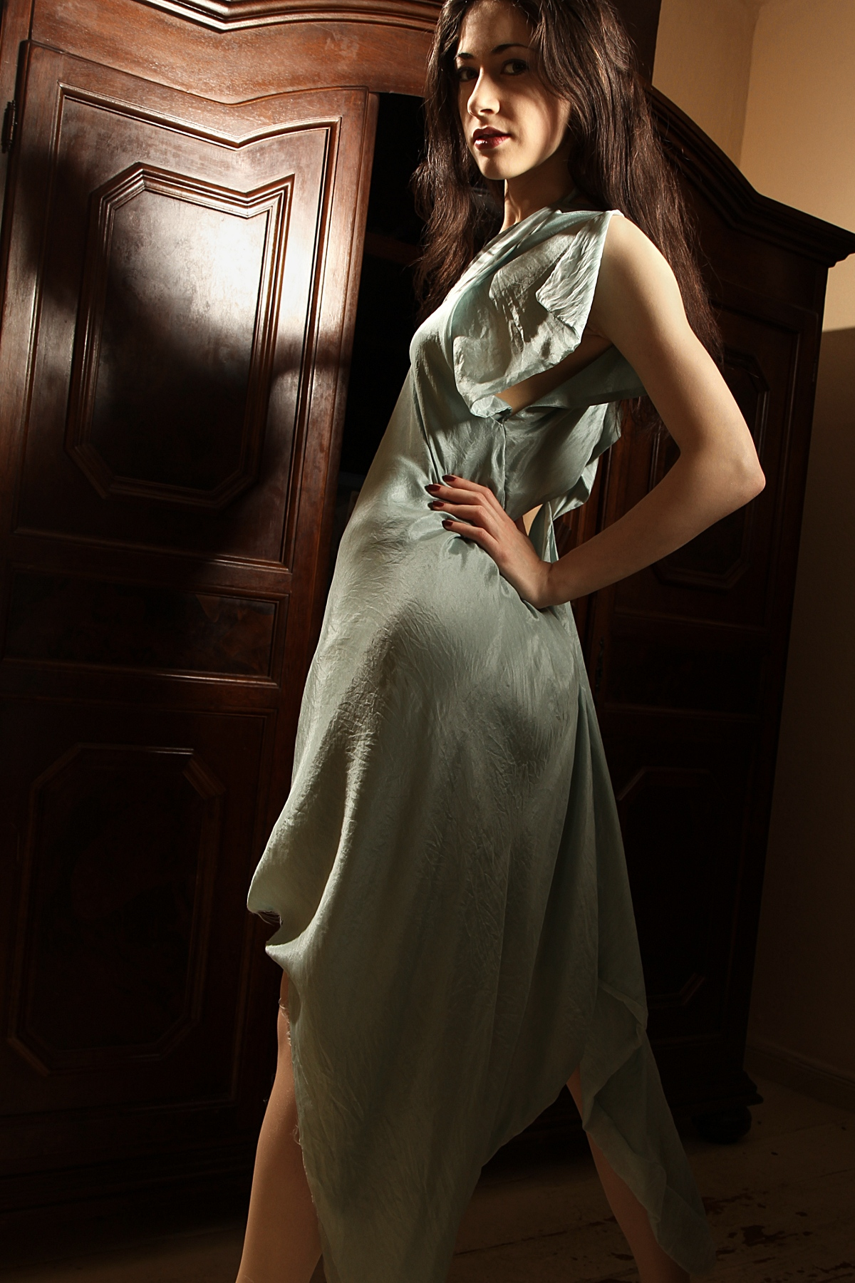 Photographer: Thomas Schmidt (netAction) Dress: (Berlin) Model: Managara (Berlin)